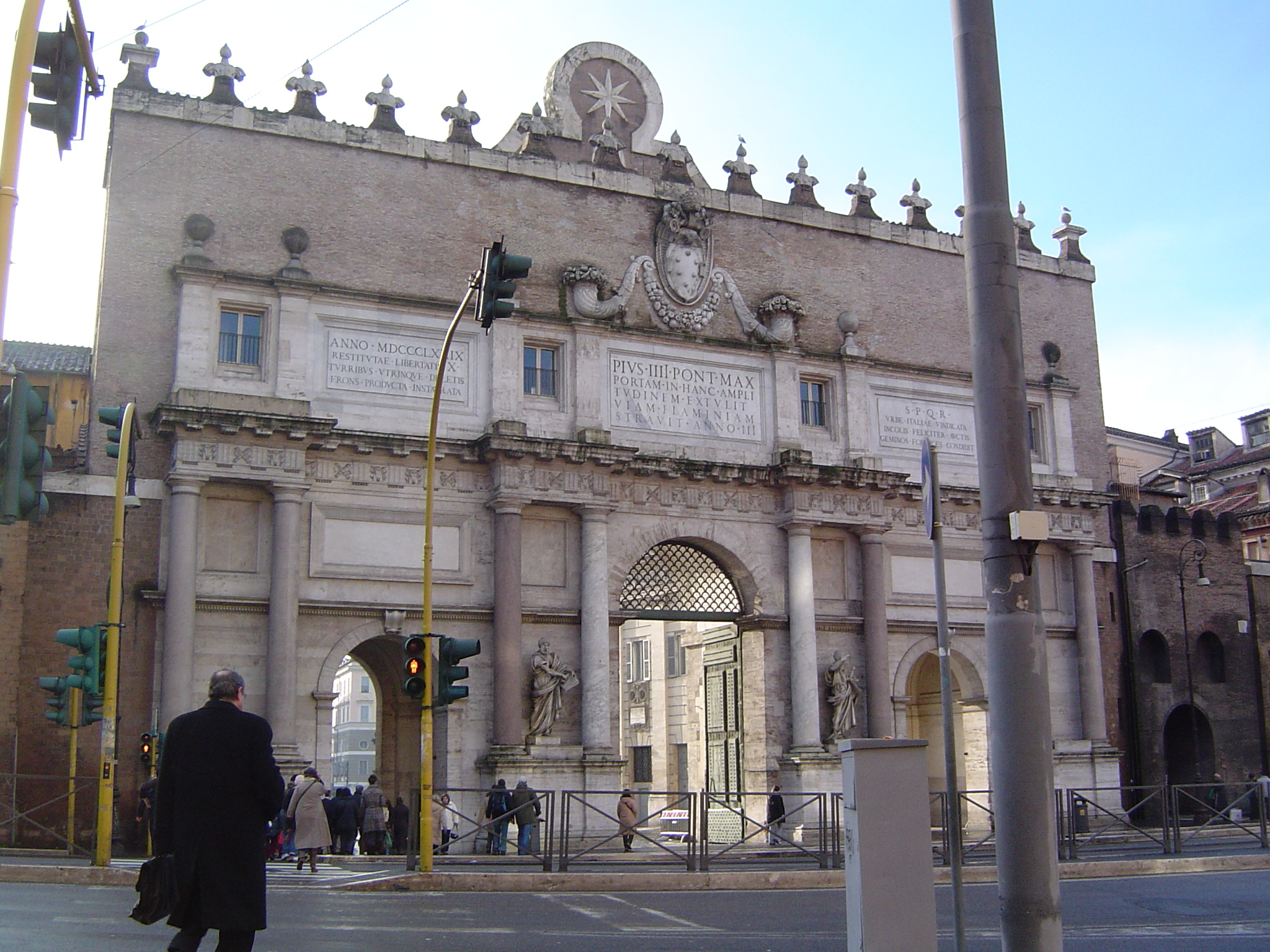 Porta del Popolo, Rome, Italy Made by Joris van Rooden, the Netherlands on 03-01-2006